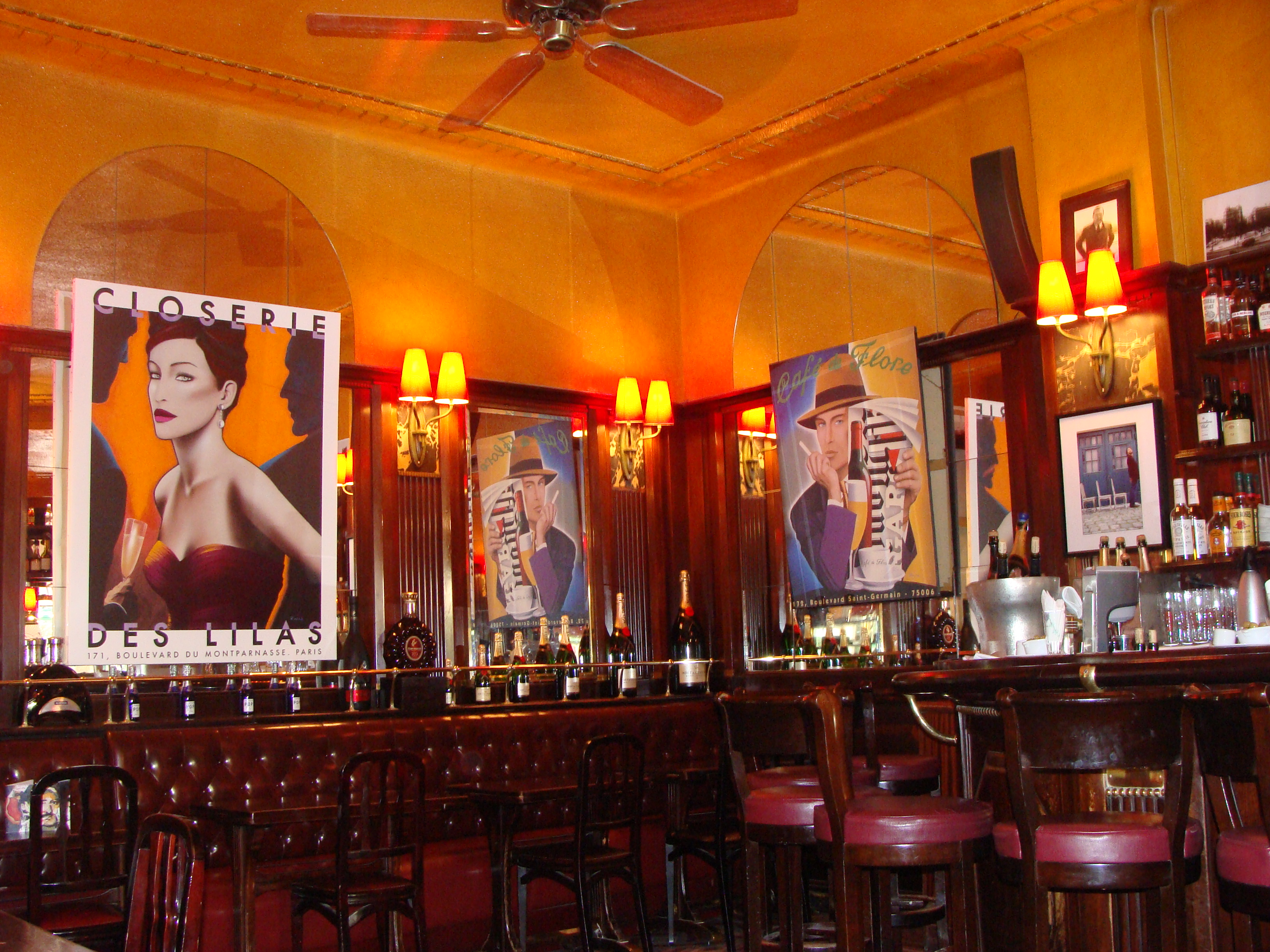 The bar at the Closerie des Lilas, Paris